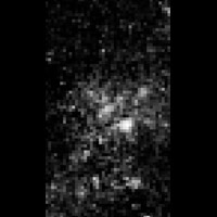 Progenitor of supernova SN 2005gl imaged by Hubble space telescope.